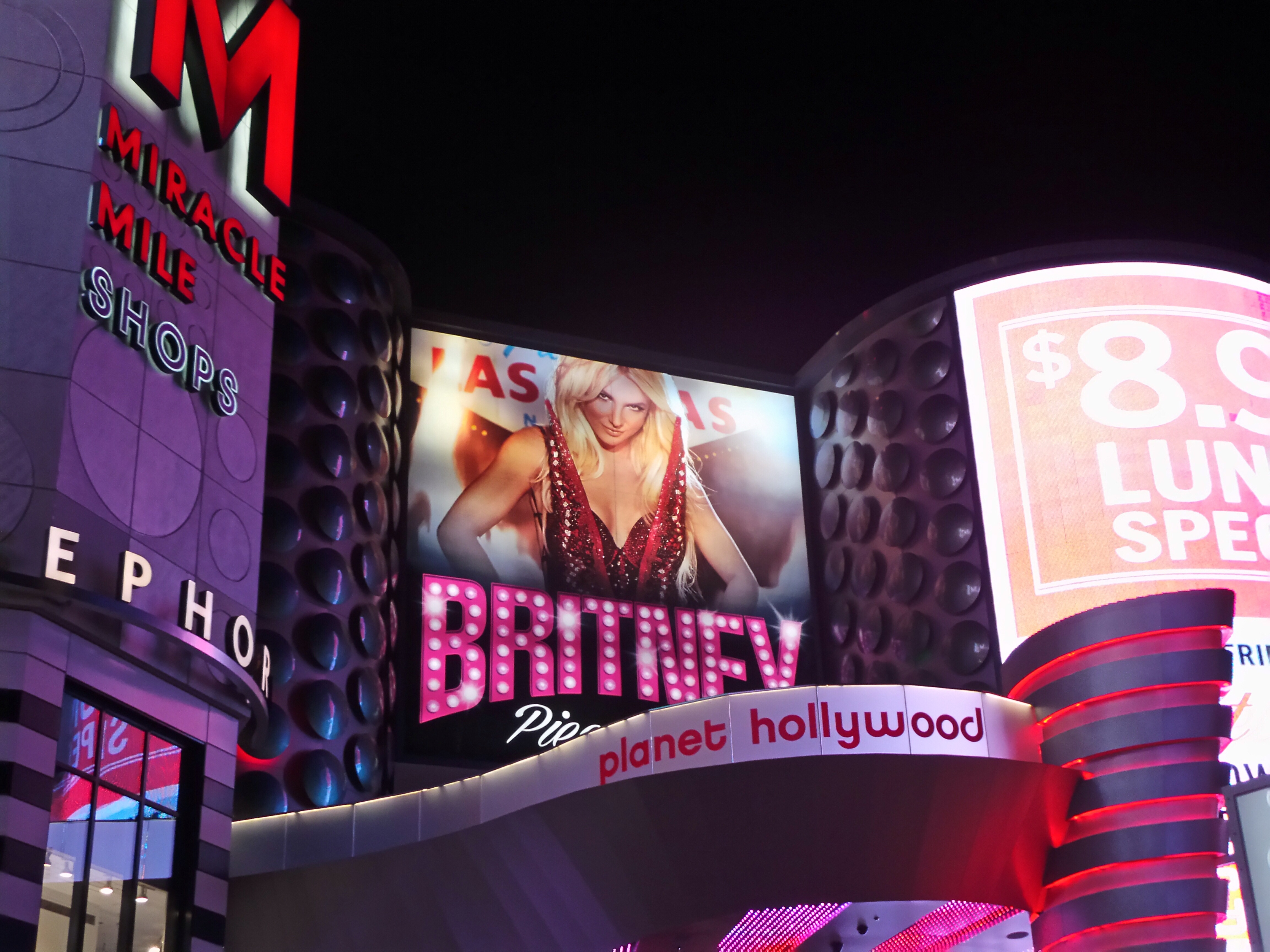 Britney